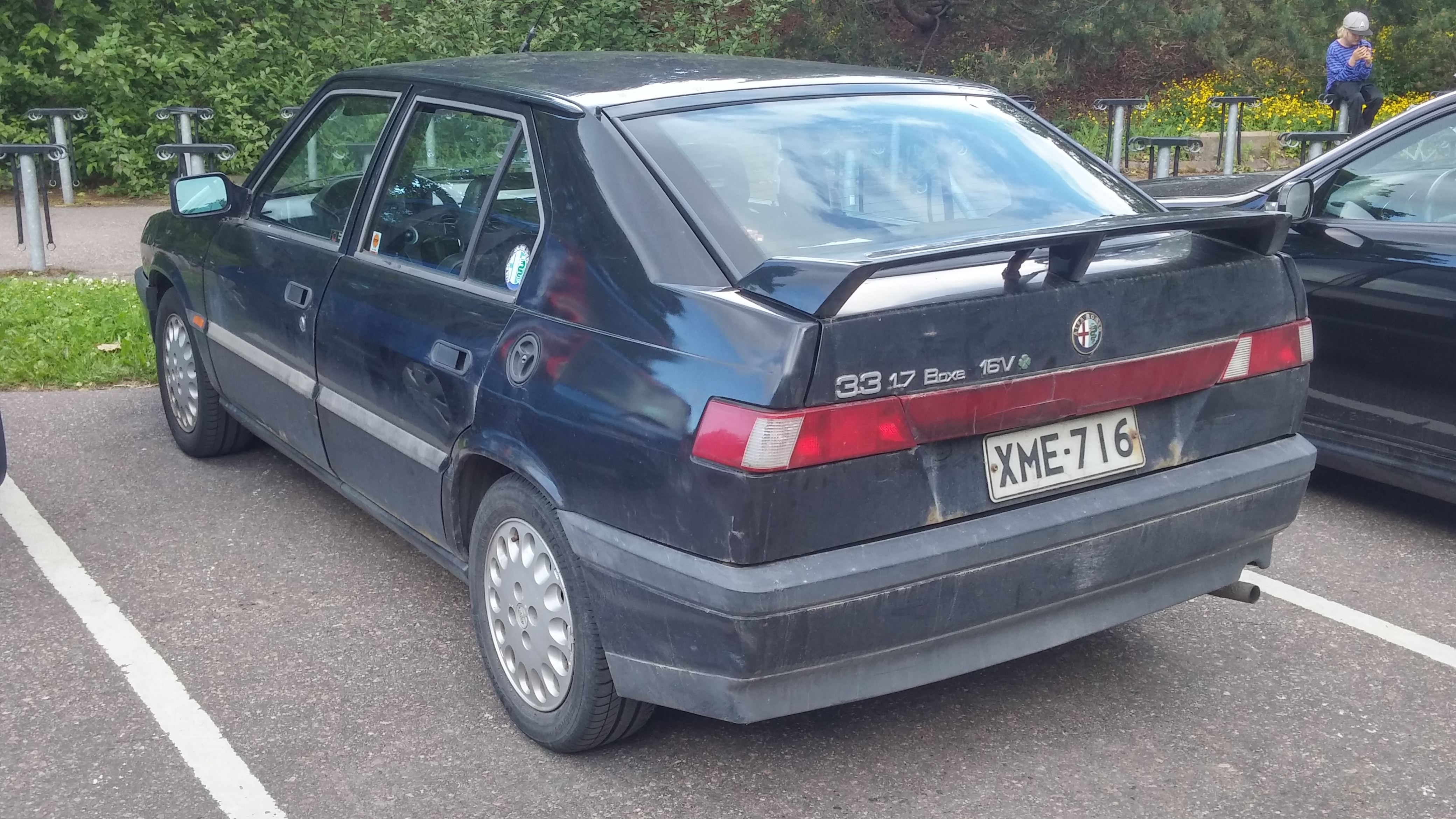 1990 Alfa Romeo 33